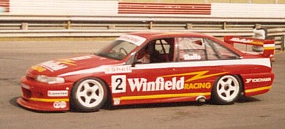 Mark Skaife's 1994 ATCC winning Holden Commodore